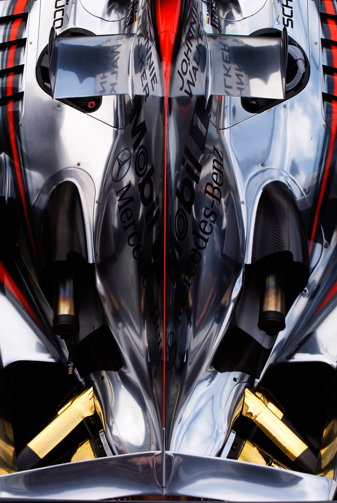 The rear of the McLaren MP4-21